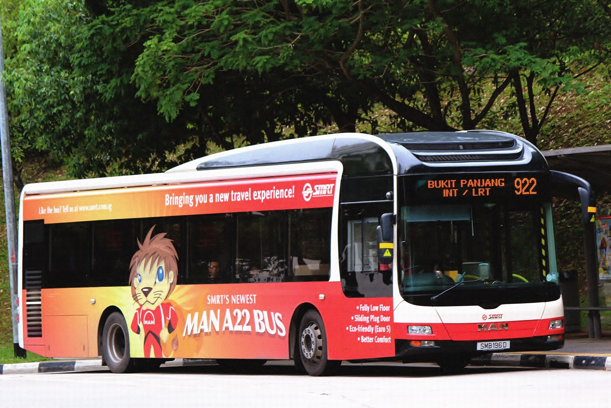 SMRT Buses MAN NL 323F (A22 chassis, reg. SMB196D) with Lion's City Hybrid body, made by Gemilang Coachworks of Malaysia. Built 2011 or 2012.